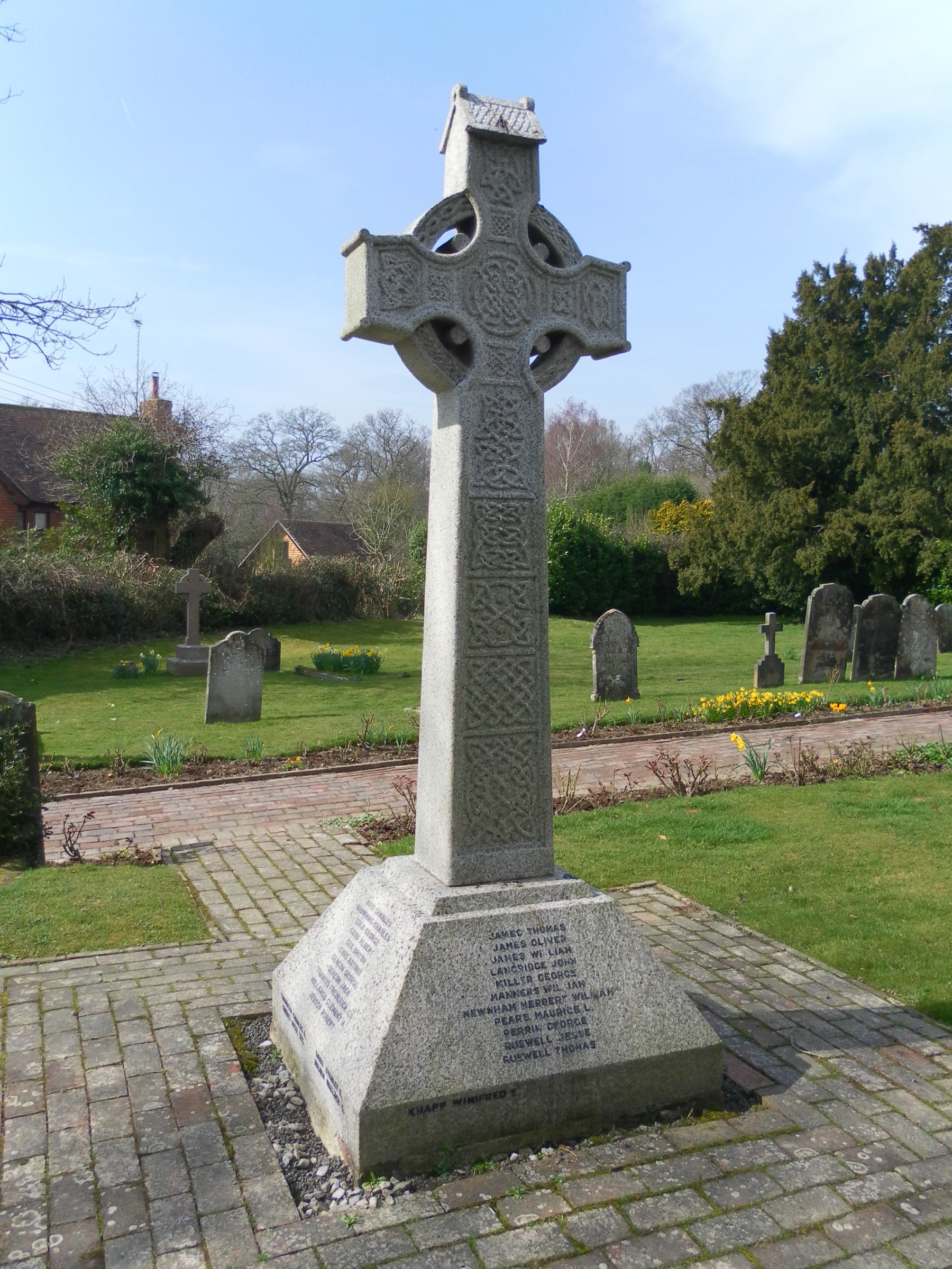 Parish war memorial at St Giles' Church, Church Lane, Horsted Keynes, district of Mid Sussex, West Sussex, England. An Anglican church built in the 12th–13th century to serve this village in a rural part of Mid Sussex. The memorial was erected in 1920.